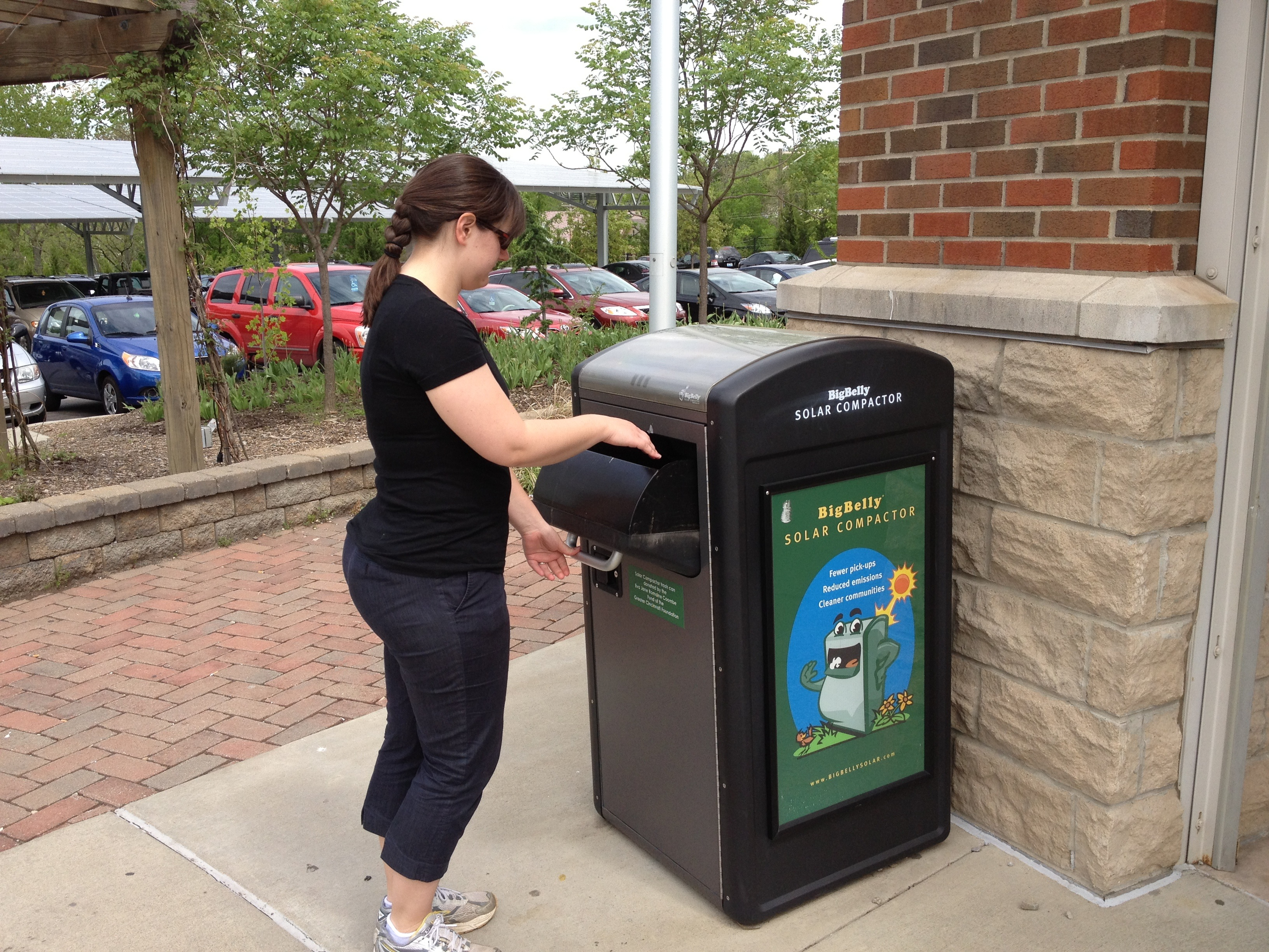 A woman uses a solar trash compactor at the Cincinnati Zoo